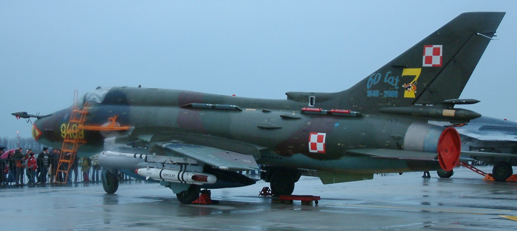 Su-22M4K (Su-17M4K) #9409 of Polish Air Force with markings of 7th Tactical Sqd., 31st. Air Base Poznań-Krzesiny